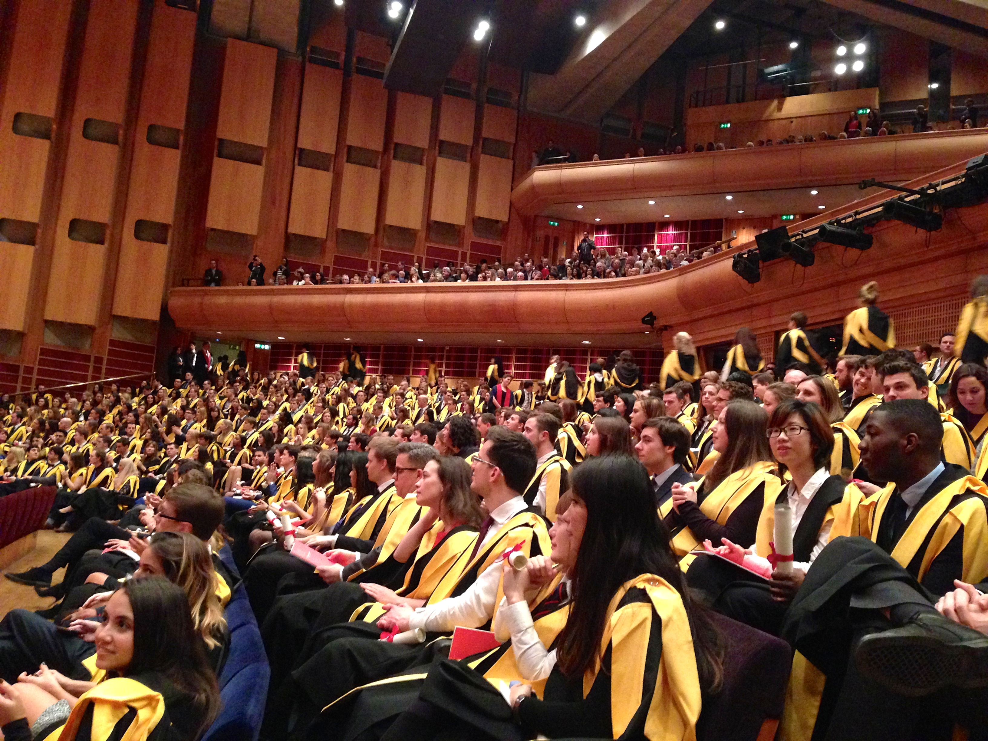 King's College London graduands with VivienneWestwood-designed academic dress.